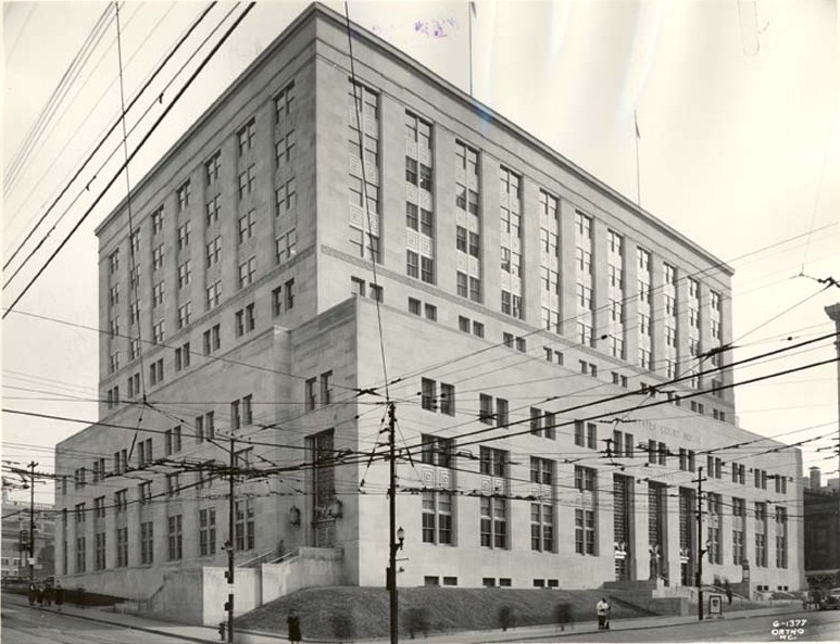 United States Court House and Post Office (1939), Kansas City (Jackson County, Missouri). National Archives, RG 121-BS, Box 54, Folder A, Print 1